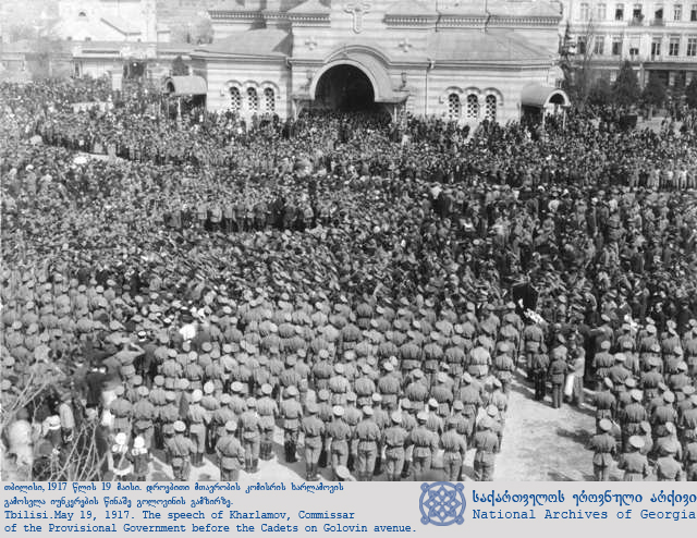 Tbilisi. The speech of kharlamov, Commissar ot the Provisional Goverment before the Cadets of Golovin Avenue.